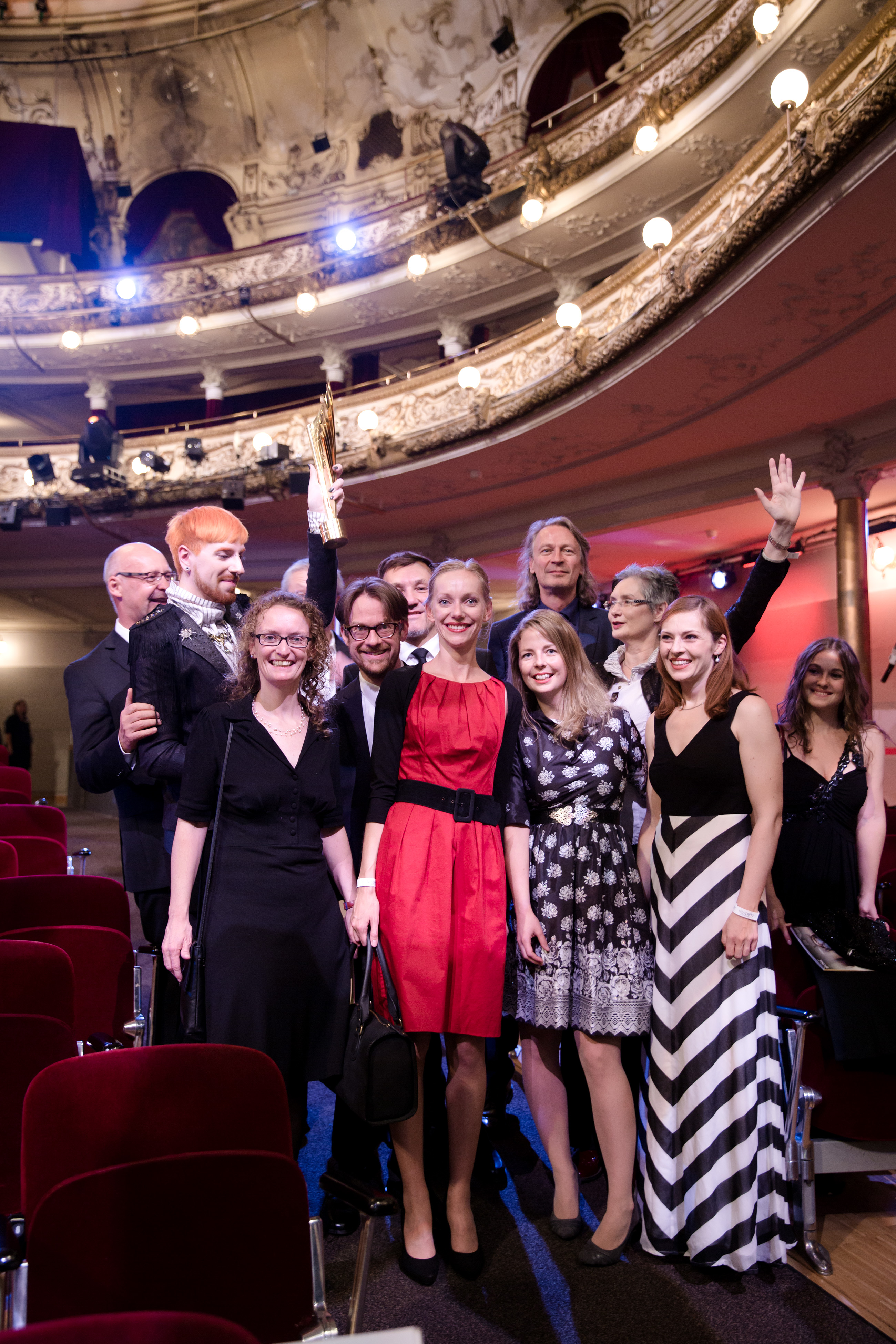 Team and ensemble of the dramatization of Anna Karenina at Tiroler Landestheater Innsbruck at the Nestroy Theatre Awards 2015 (Ronacher, Vienna, Austria).